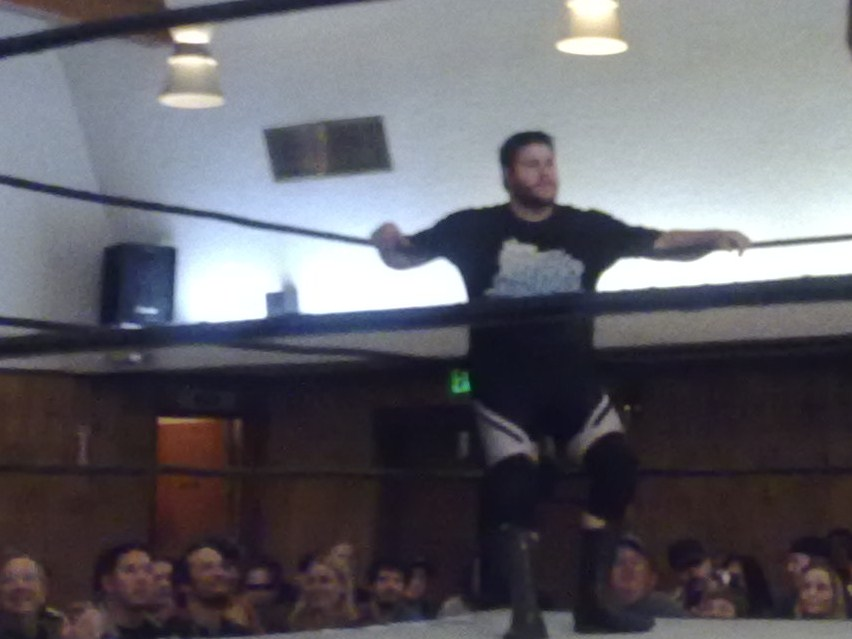 Kevin Steen at Pro Wrestling Guerrilla's Battle Of Los Angeles 2009 on November 20, 2009.